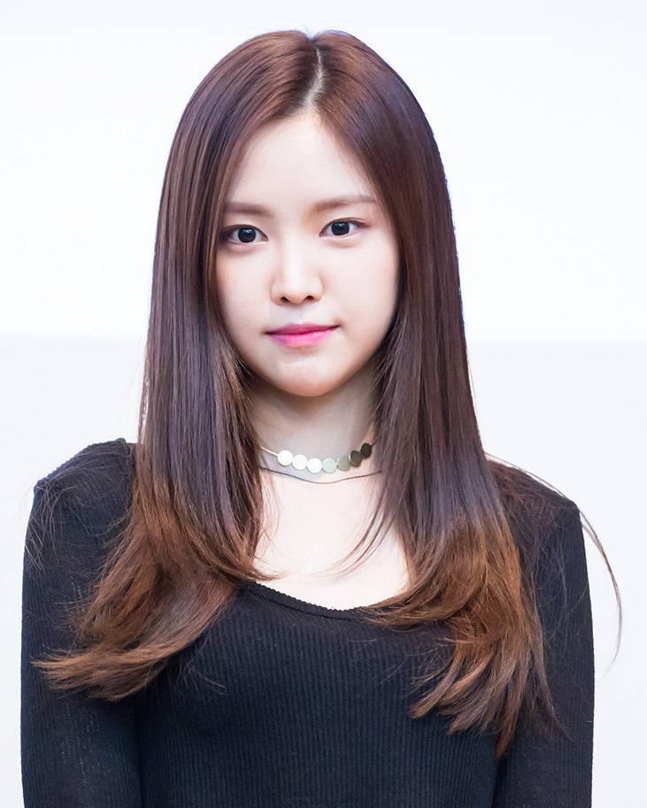 Apink's Naeun attends a fan signing in Yeouido on July 8, 2017.